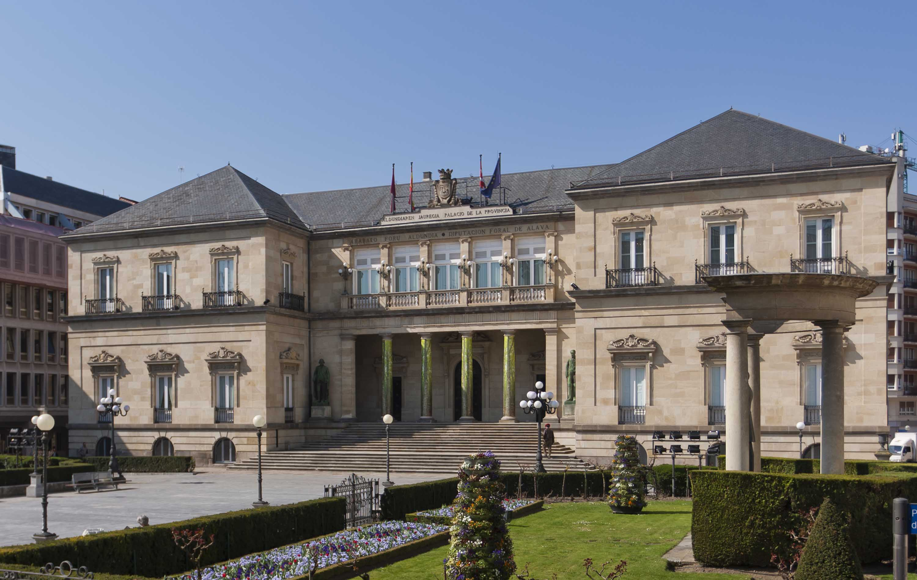 Diputation of Vitoria